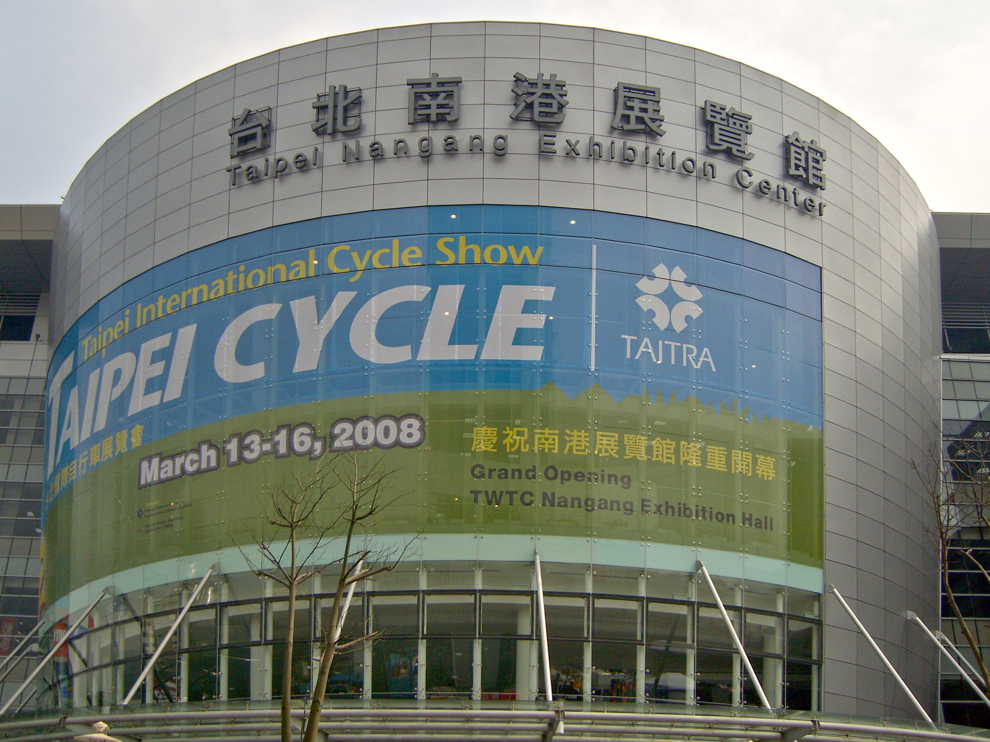 2008 Taipei Cycle: The title of "TWTC Nangang" with show banner.